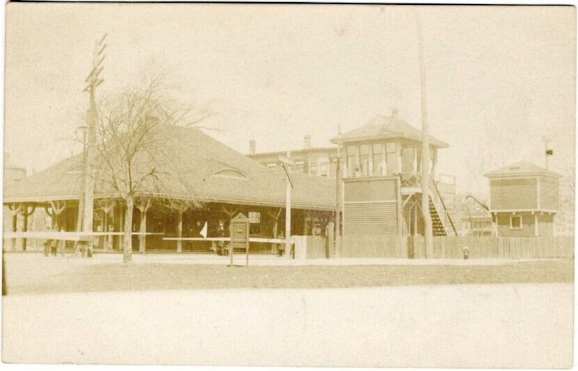 Early postcard of Orient Heights station on the Boston, Revere Beach and Lynn Railroad